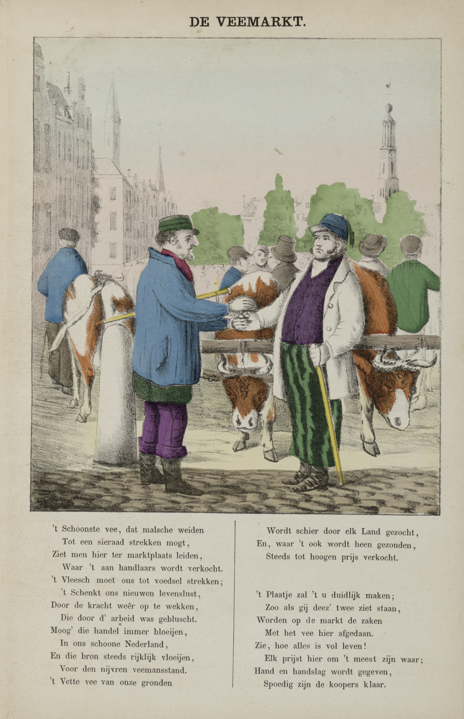 De Boerderij - nieuw prentenboek